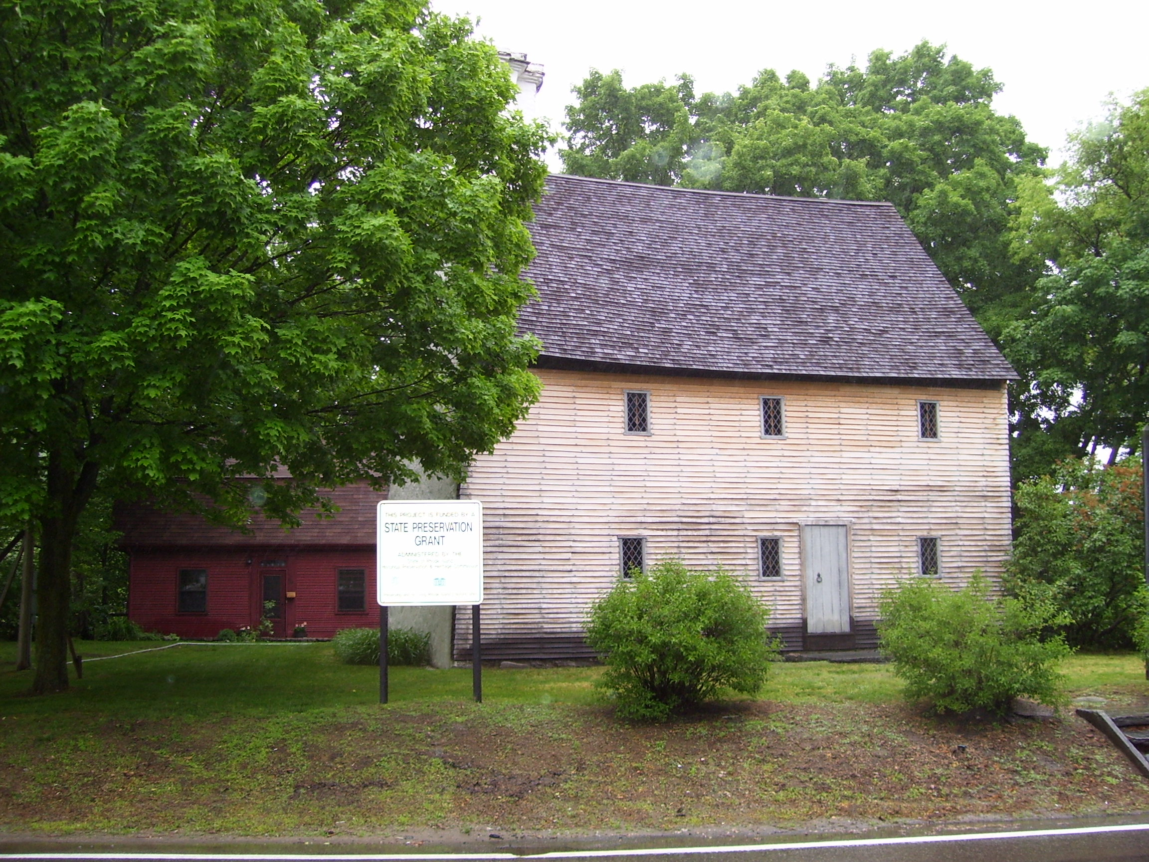 This is my 2008 photo of the Eleazer Arnold House in Lincoln, RI.